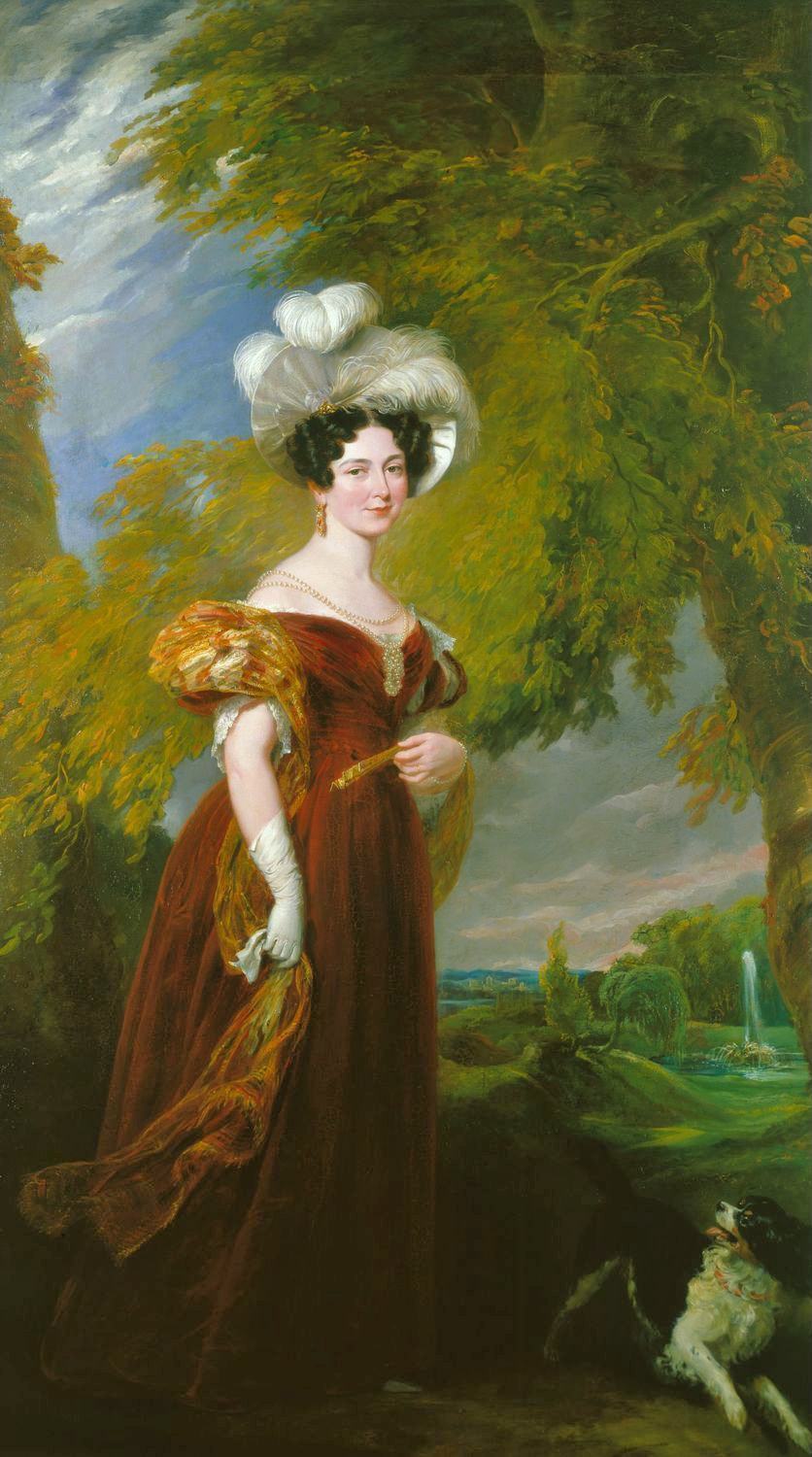 Portrait of Victoria, Duchess of Kent